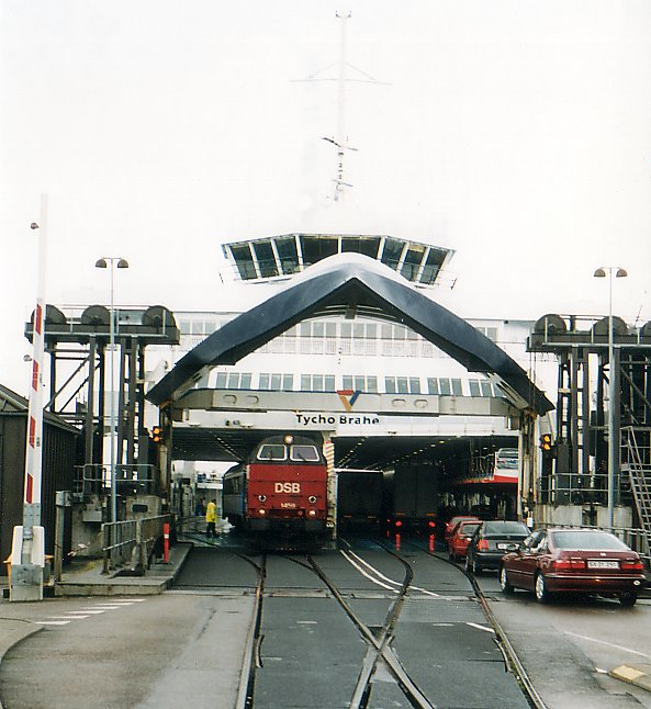 DSB locomotive MZ 1459 places some Swedish coaches on the railway ferry to Helsingborg, in Helsingør.